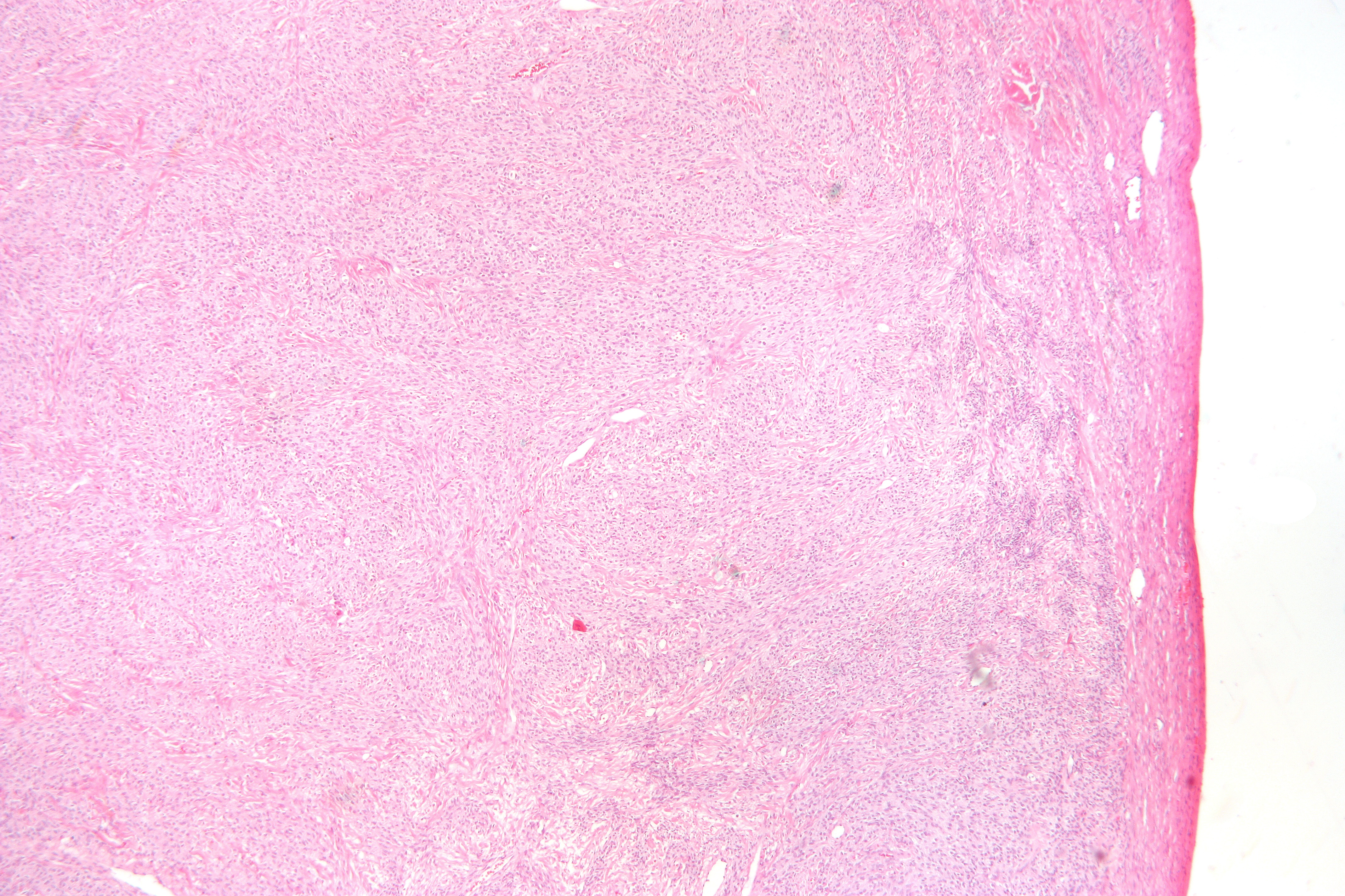 Low magnification micrograph of a thecoma. Thecomas are benign ovarian tumours that belong to the sex cord-stromal tumour group and are thought to arise from the ovarian medulla. Histologic features (seen in image): Nuclei with oval to spindle morphology. Abundant cytoplasm that is pale, vacuolated. Compression of the ovarian cortex (right aspect of image). These tumours can be differentiated from fibroma with alpha-inhibin staining. Also, fibromas lack the characteristic vacuolization of the cytoplasm. See also Image:thecoma_high_mag.jpg - high magnification view of the same tumour.